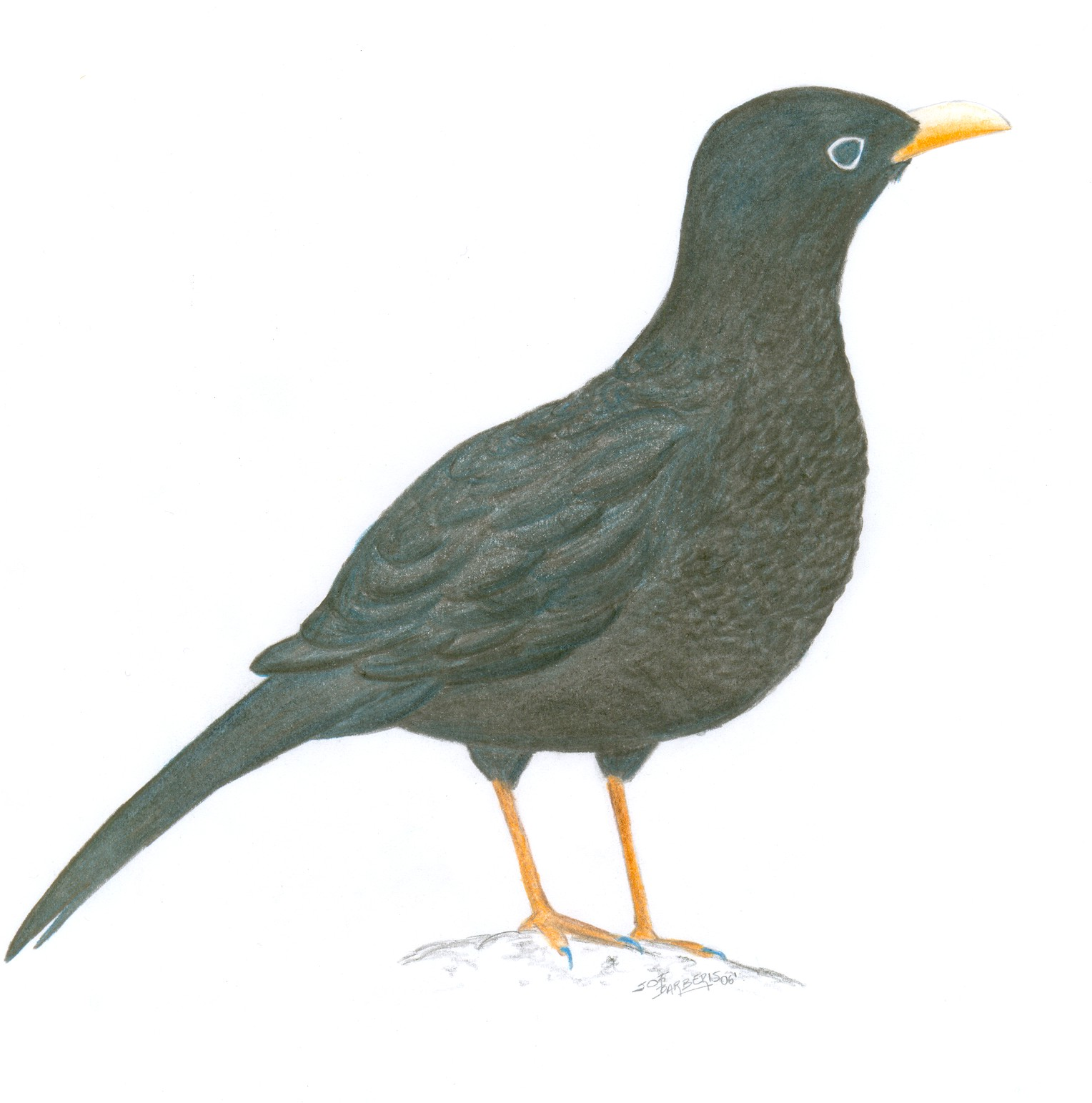 The tipical bird the Alpa Corral village